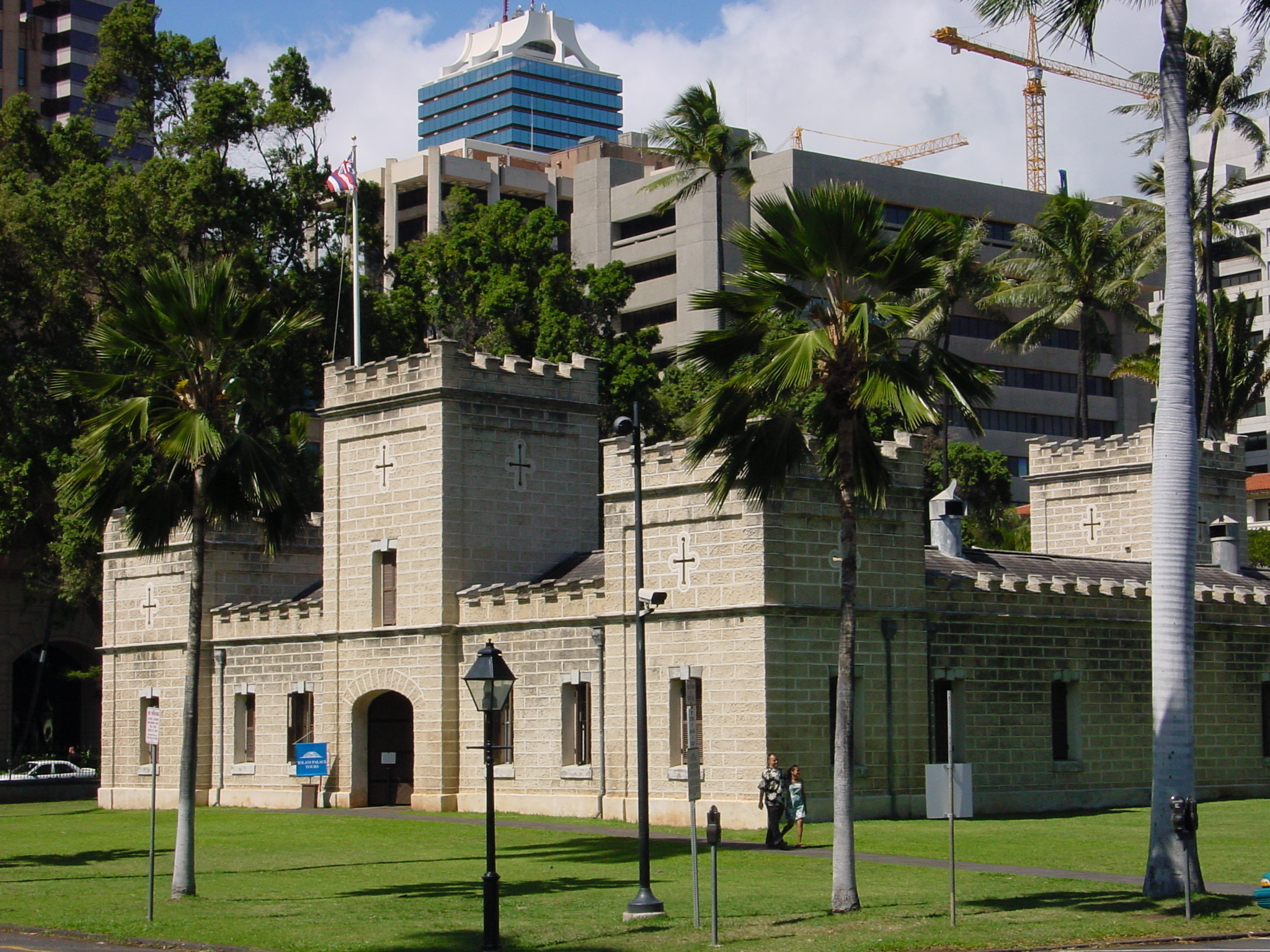 Barracks of the Royal Guard at 'Iolani Palace, Honolulu, Hawaii